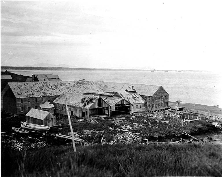 From John Cobb field notebook: The old Bradford's Cannery, A.P.A. on the Nushagak. 1917 Originally built by the Bristol Bay Canning Co. of San Francisco in 1886, it became a member of the Alaska Packer's Assoc. in 1893. It was dismantled in 1907. Subjects (LCTGM): Canneries--Alaska--Nushagak Subjects (LCSH): Salmon canning industry--Alaska--Nushagak